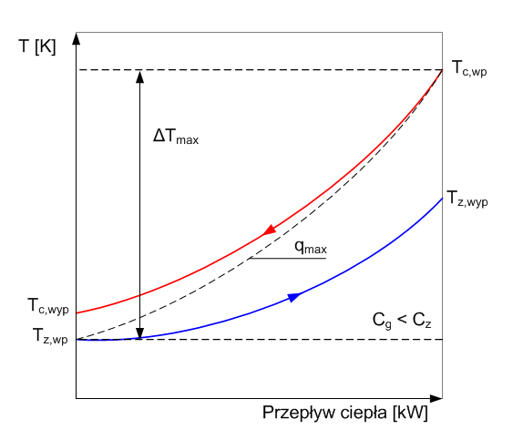 NTU Method - diagram in which hot fluid has the lower heat capacity